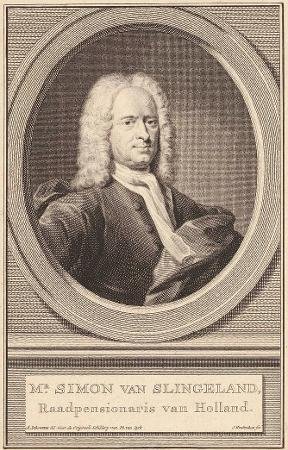 Simon van Slingelandt (1664-1736) dutch politician